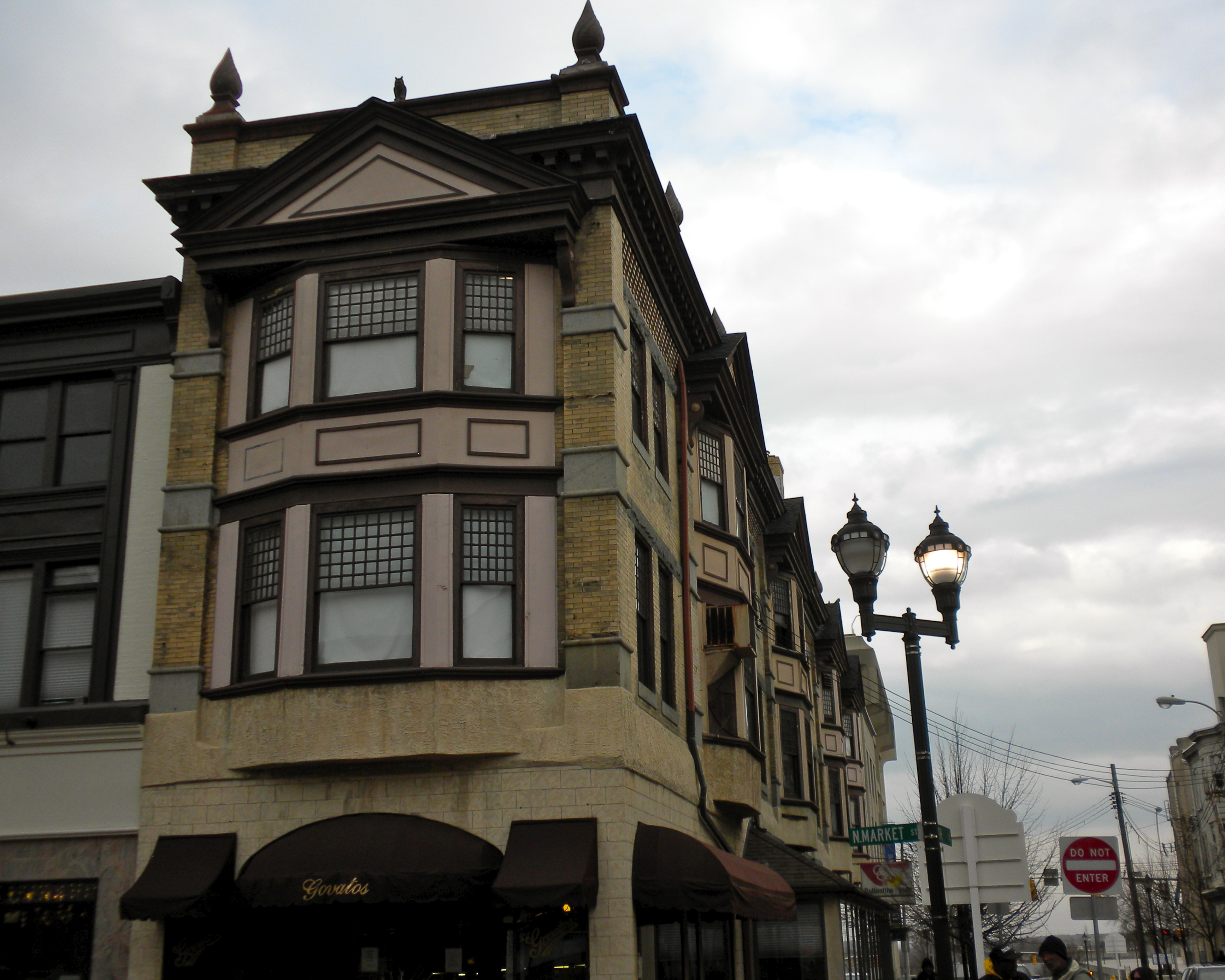 Govatos/McVey Building — a jewelry store in Wilmington, Delaware. 800 N. Market St. (8th and Market). On National Register of Historic Places in Wilmington.